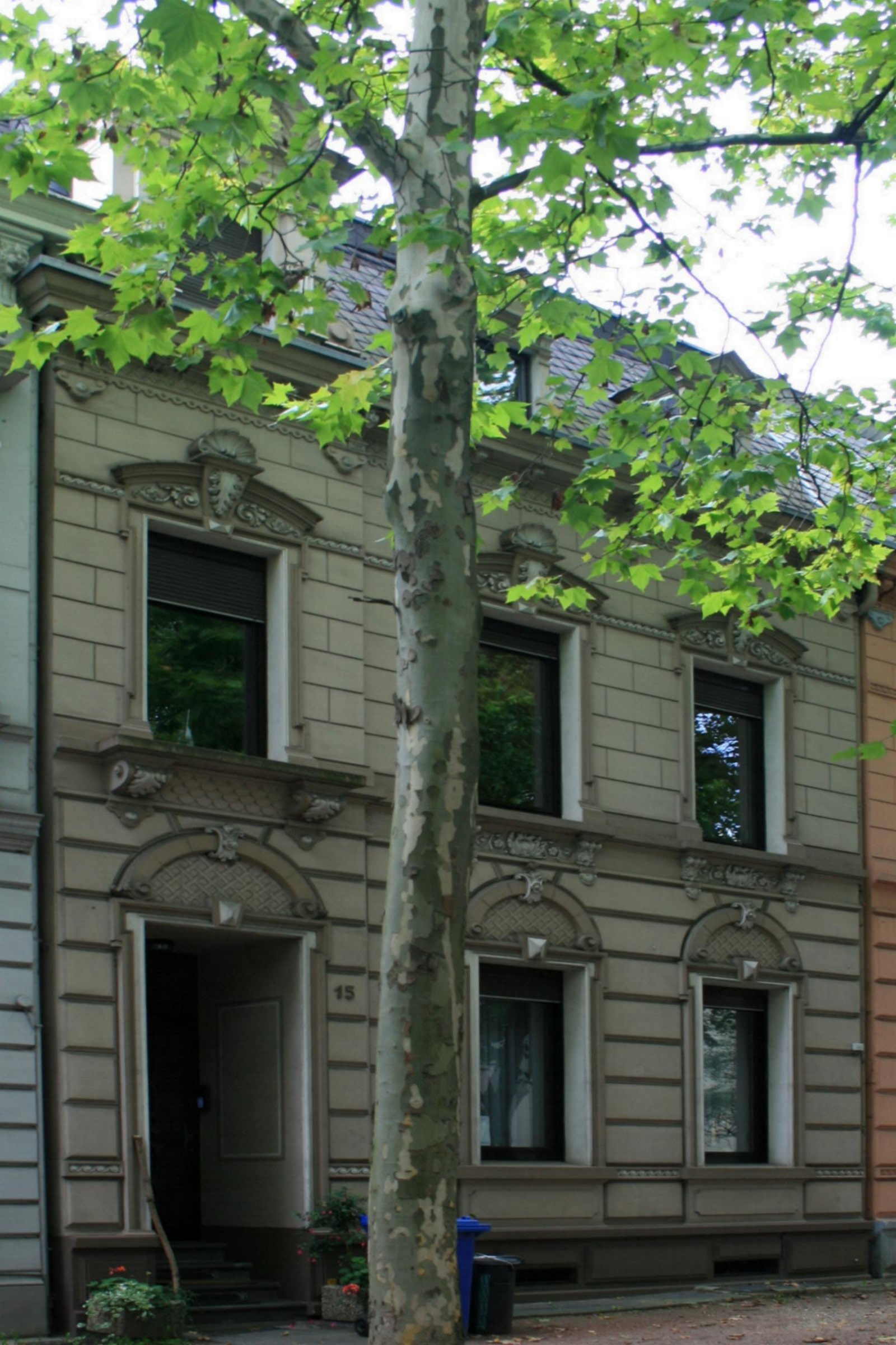 Cultural heritage monument No. T 009 in Mönchengladbach